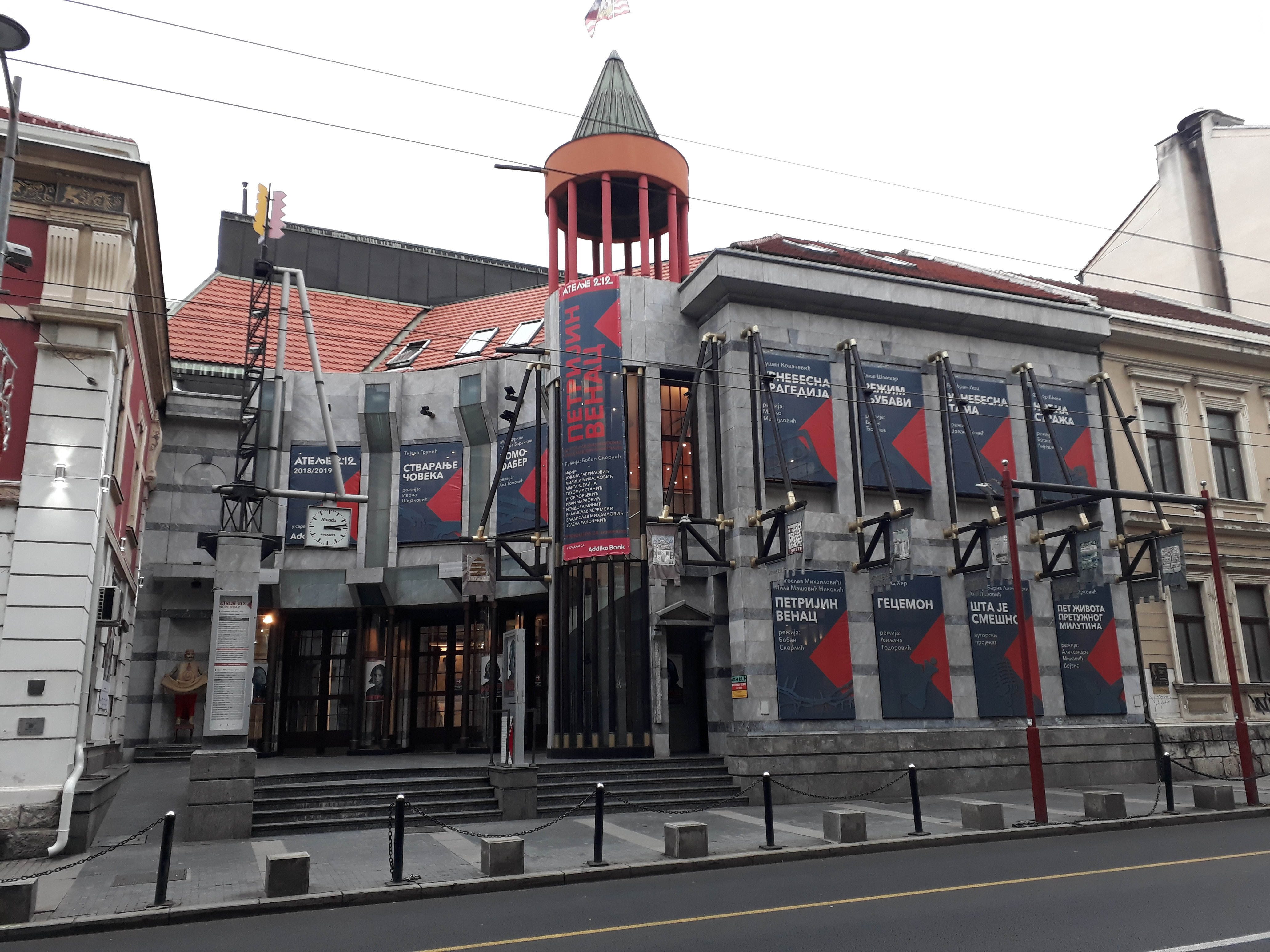 Street Svetogorska in Belgrade, Serbia, theatre Atelje 212